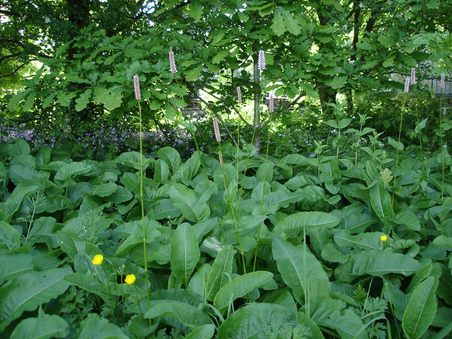 Bistort - Polygonum bistorta